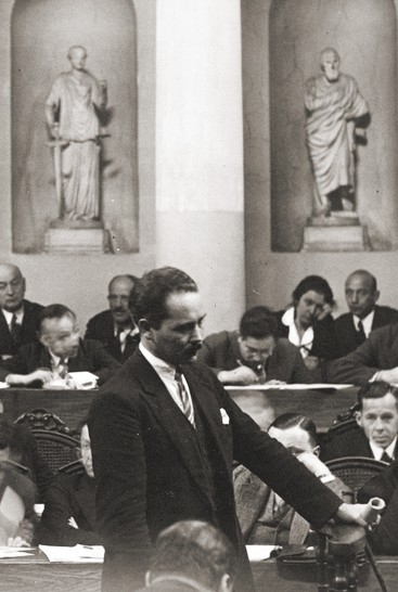 Zygmunt Zaremba Polish politician ( PPS). Press photo from political trial (Brest trials) October 1931-January 1932. Z.Zaremba testing as a witness.